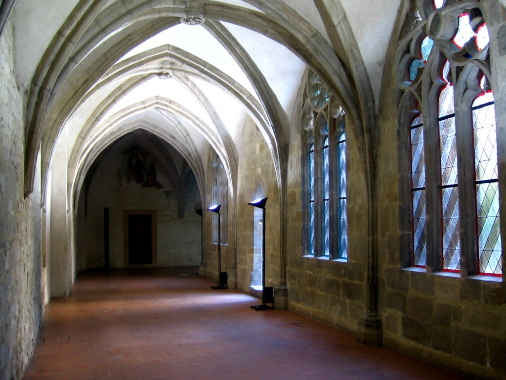 Jindrich Zdik´s Palace in Olomouc, The Czech Republic